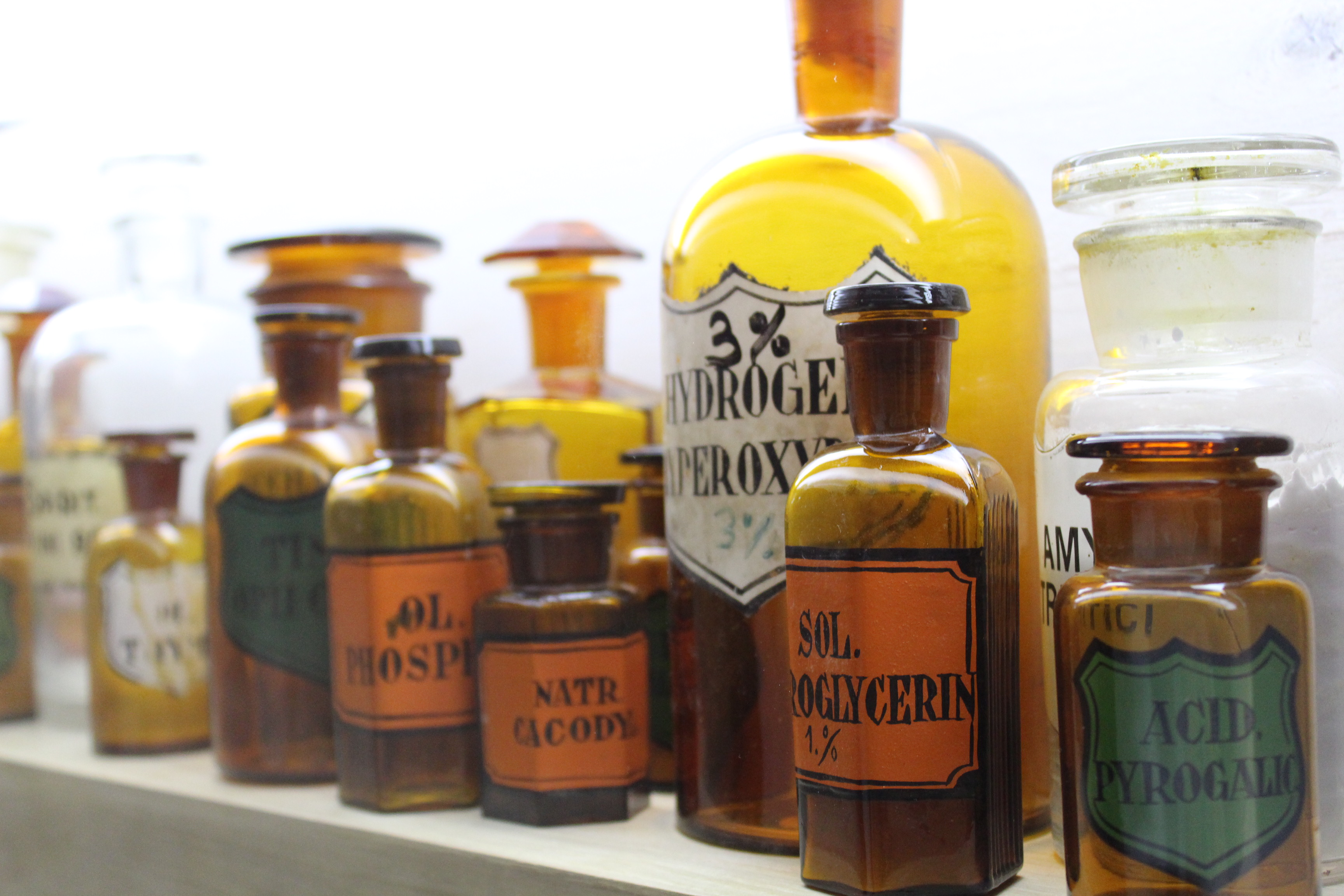 Medicin Bottles